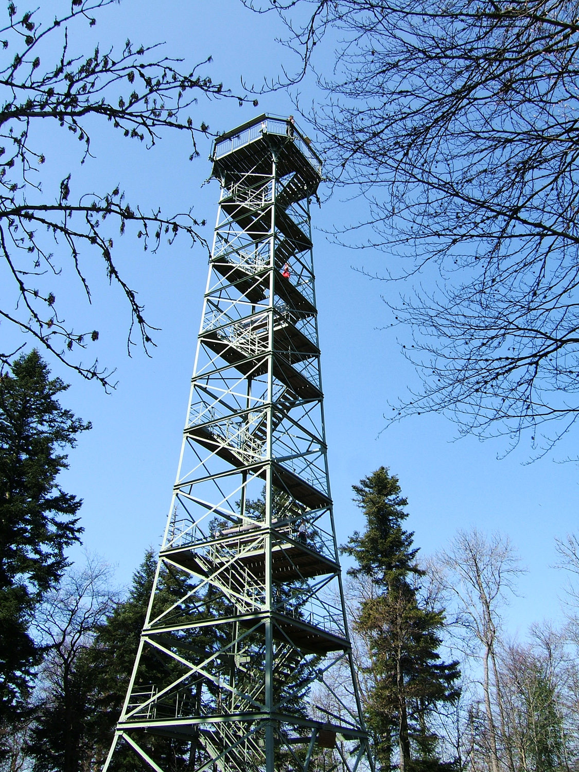 Lembergturm, a 33-m-high view tower on top of Lemberg (Swabian Alb), Germany